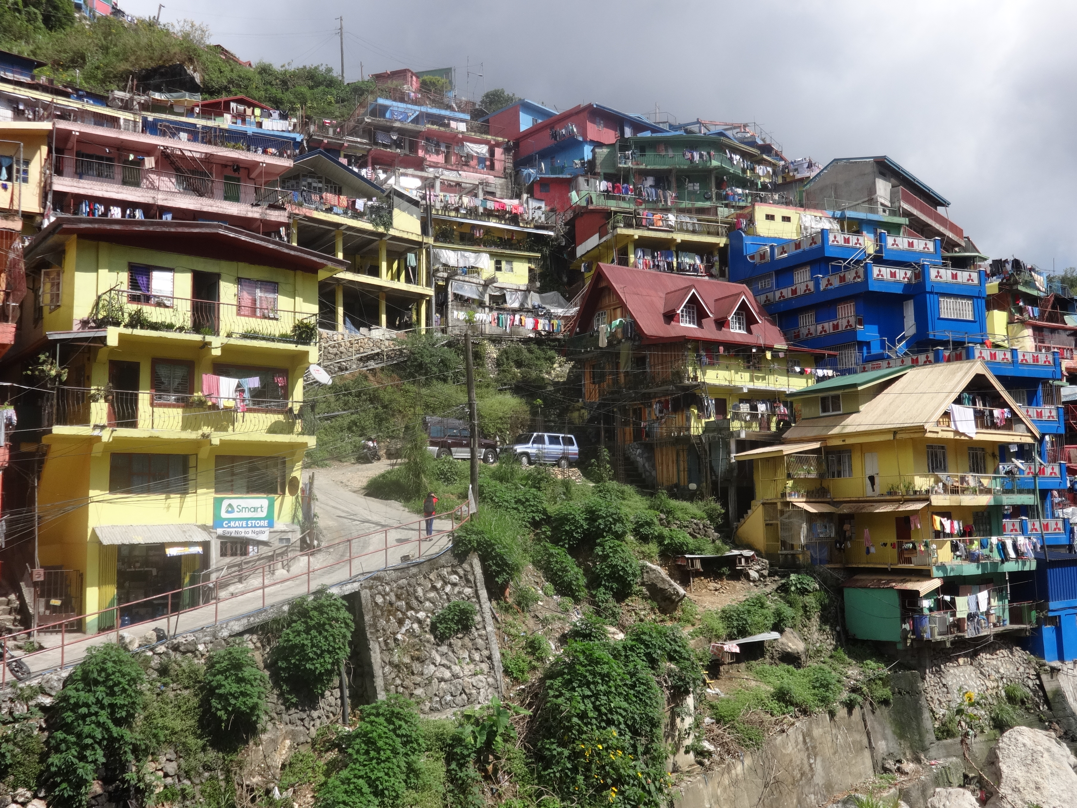 Valley of Colors houses in La Trinidad, Benguet